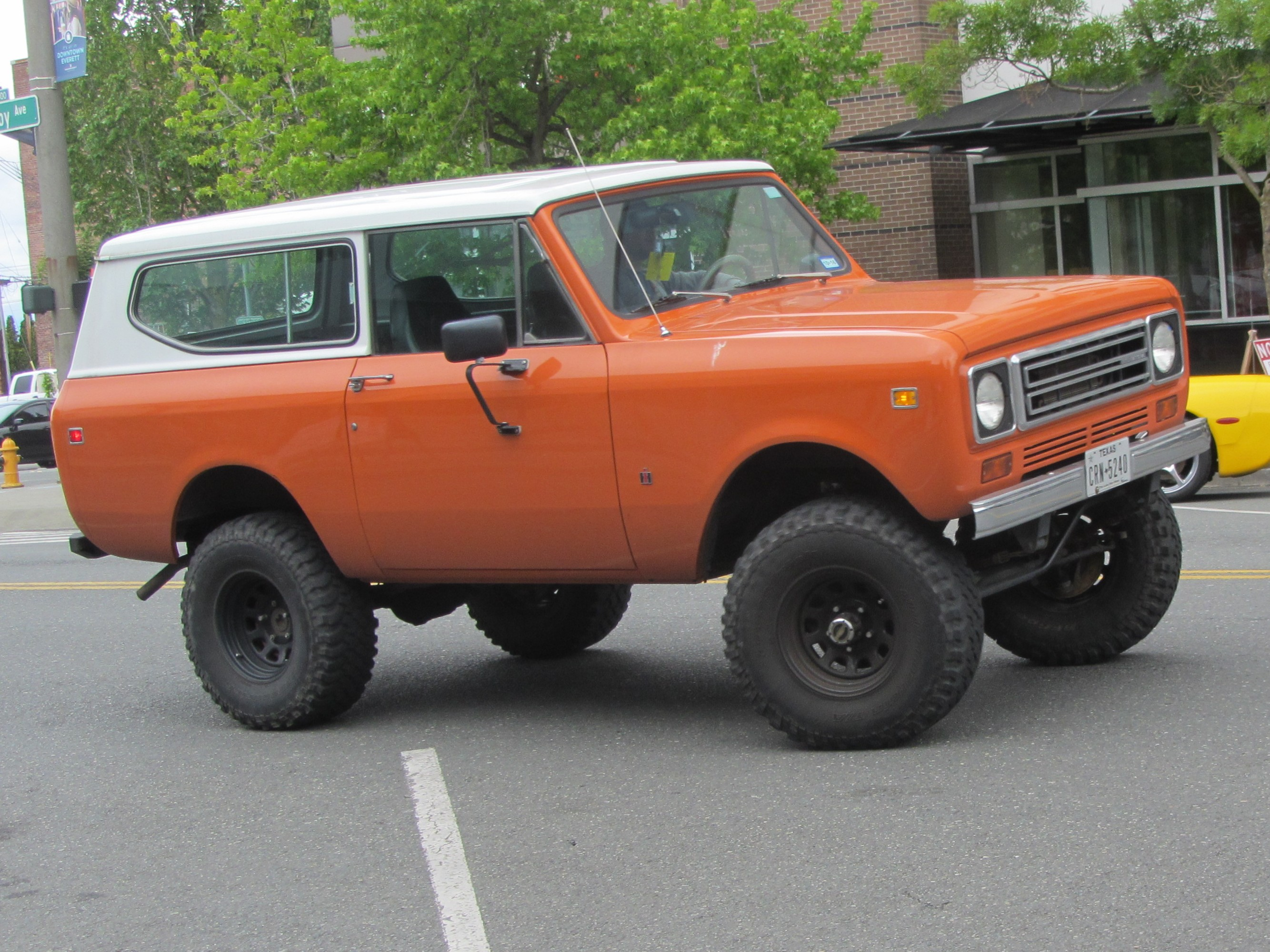 I-H Scout II Cruise on Colby Ave, Everett, Washington, an annual event on Memorial Day Weekend.